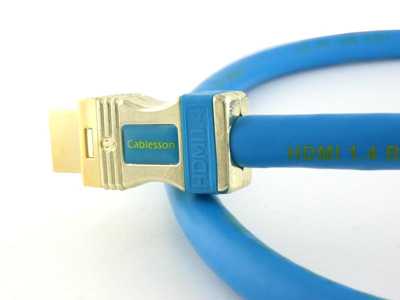 Worlds first hdmi released on 22-June-2009 at Cedia, London.